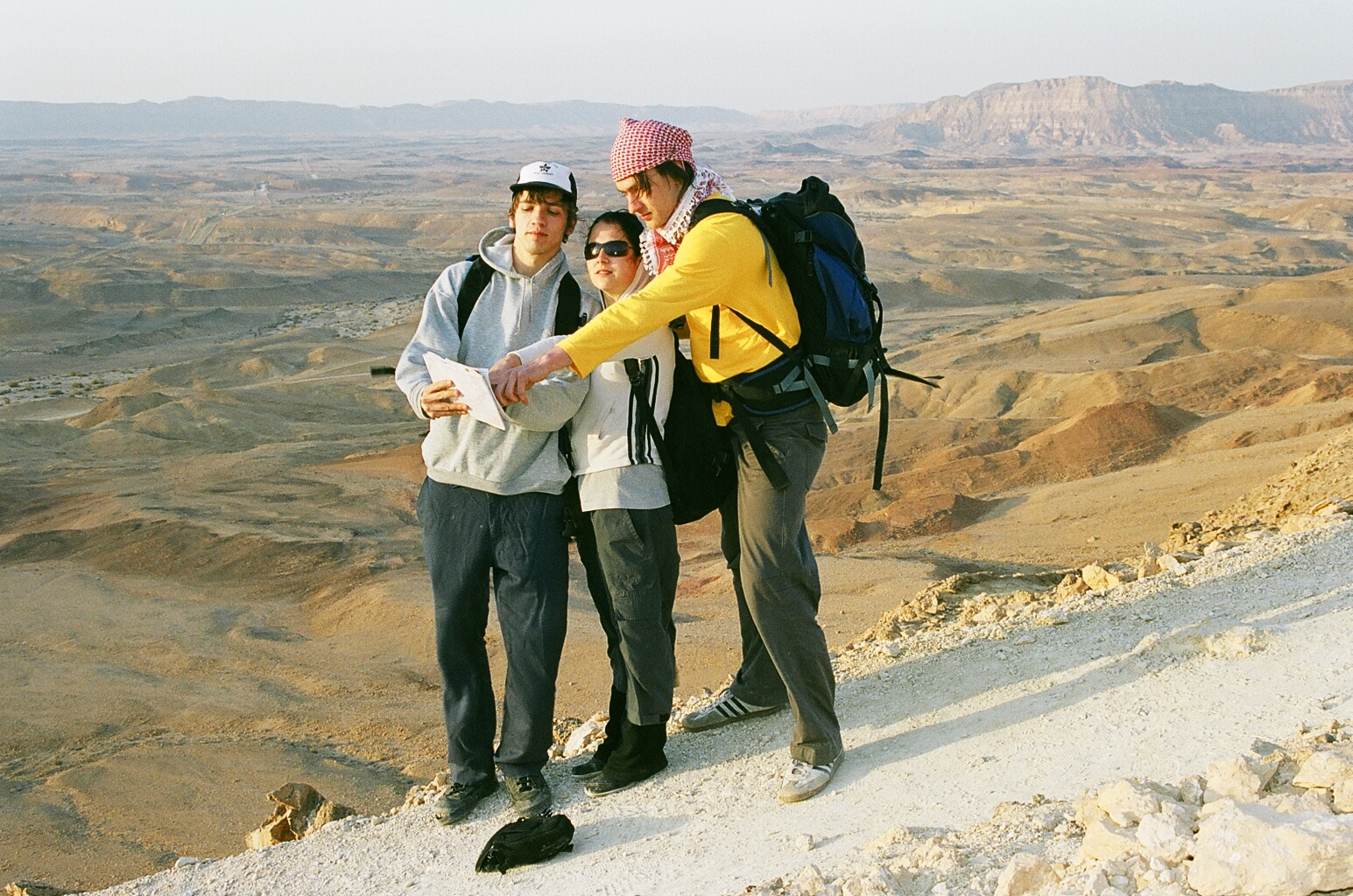 Israel 2 017. Negev - Rucksack-Tourists